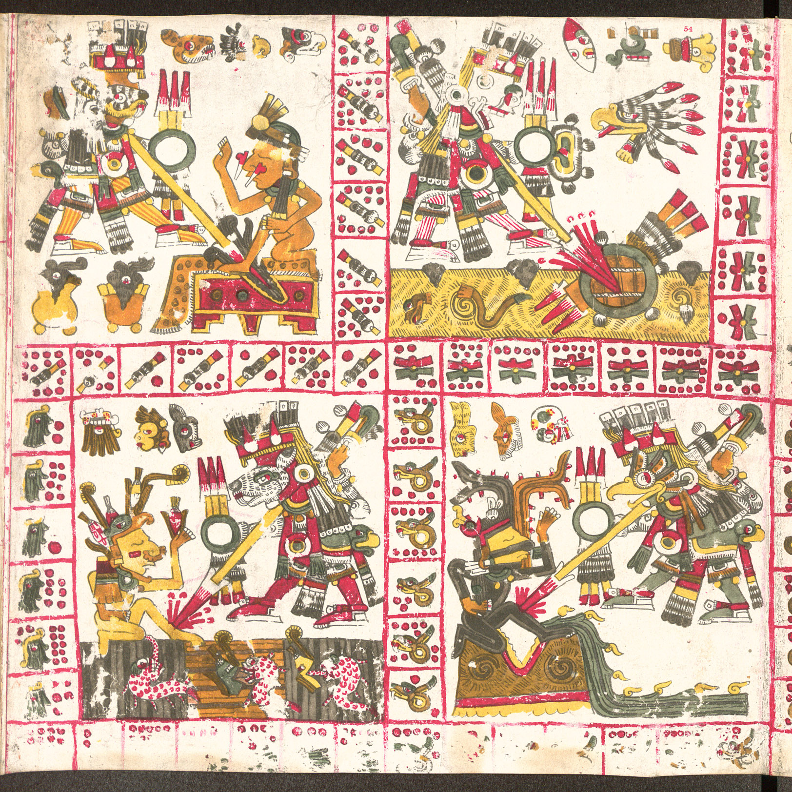 Page 54 of the Codex Borgia.